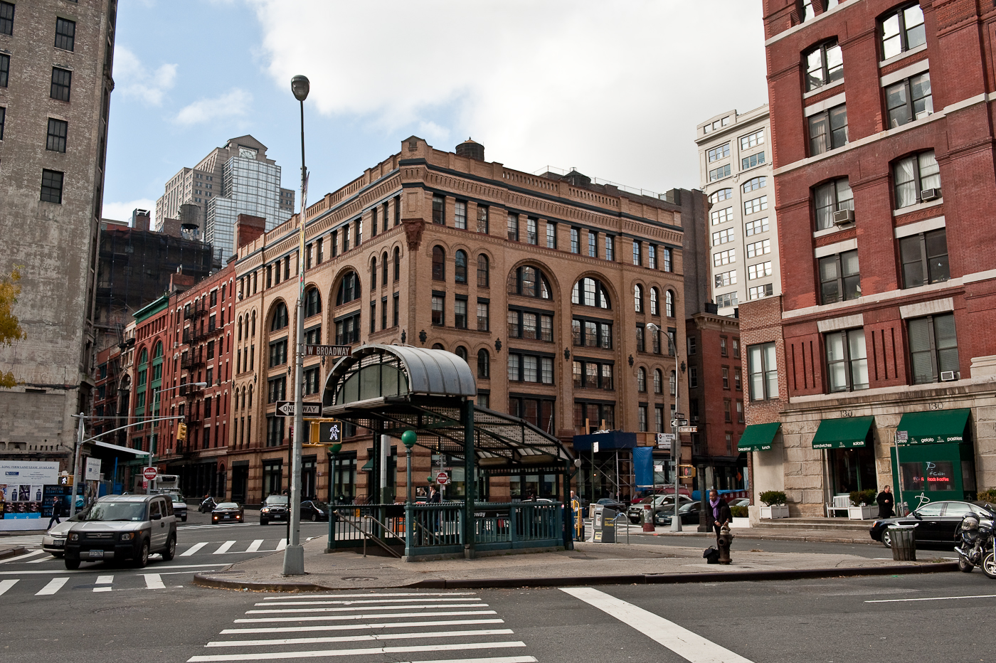 Classic subway entrance, also classic 140 Franklin Street behind it